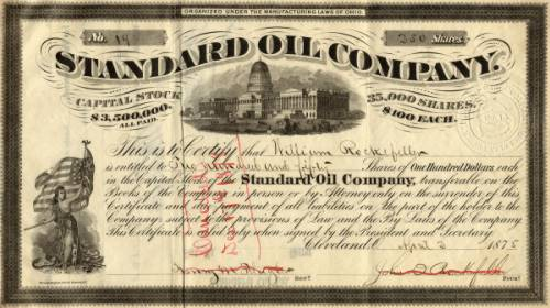 Standard Oil´s Stock